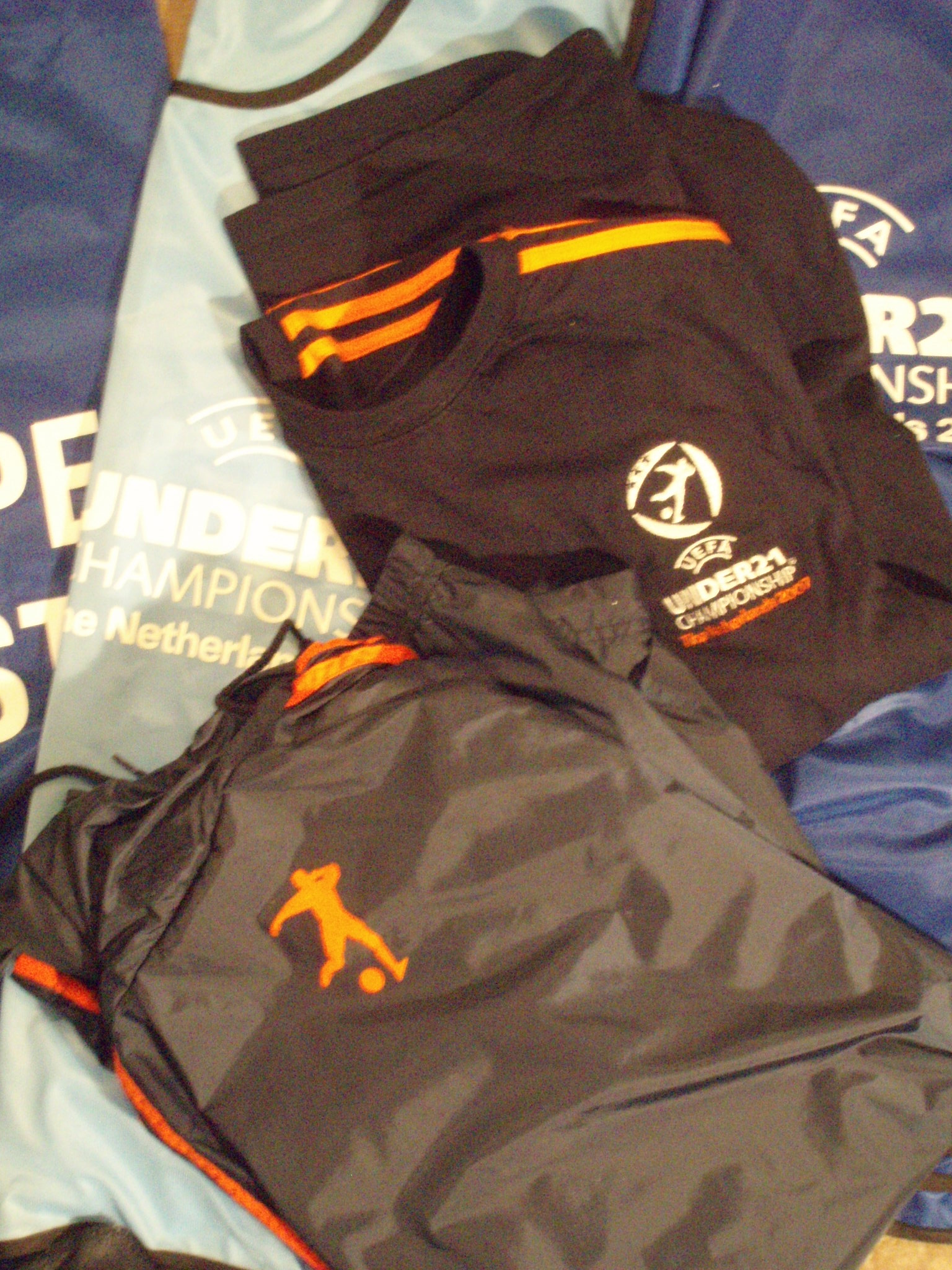 Clothing of UEFA 2007 under 21